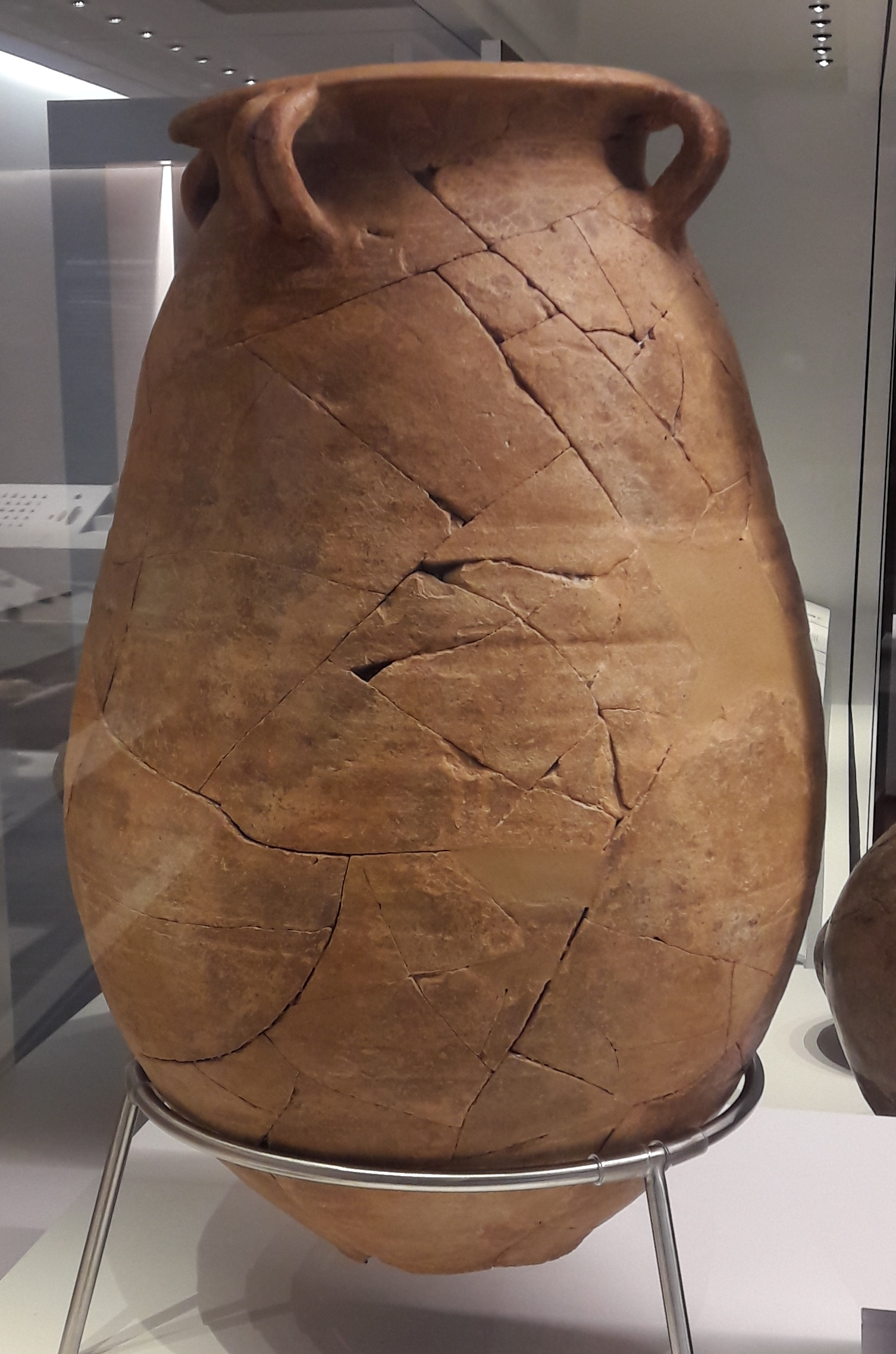 Storage vessel or pithos. Clay. 8th century BC. From Chorreras, Vélez-Málaga. Museo de Málaga, Spain.